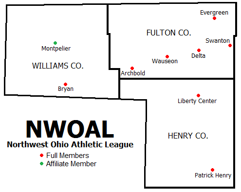 County outlines made by the US Census. Modified by myself to show the school locations.